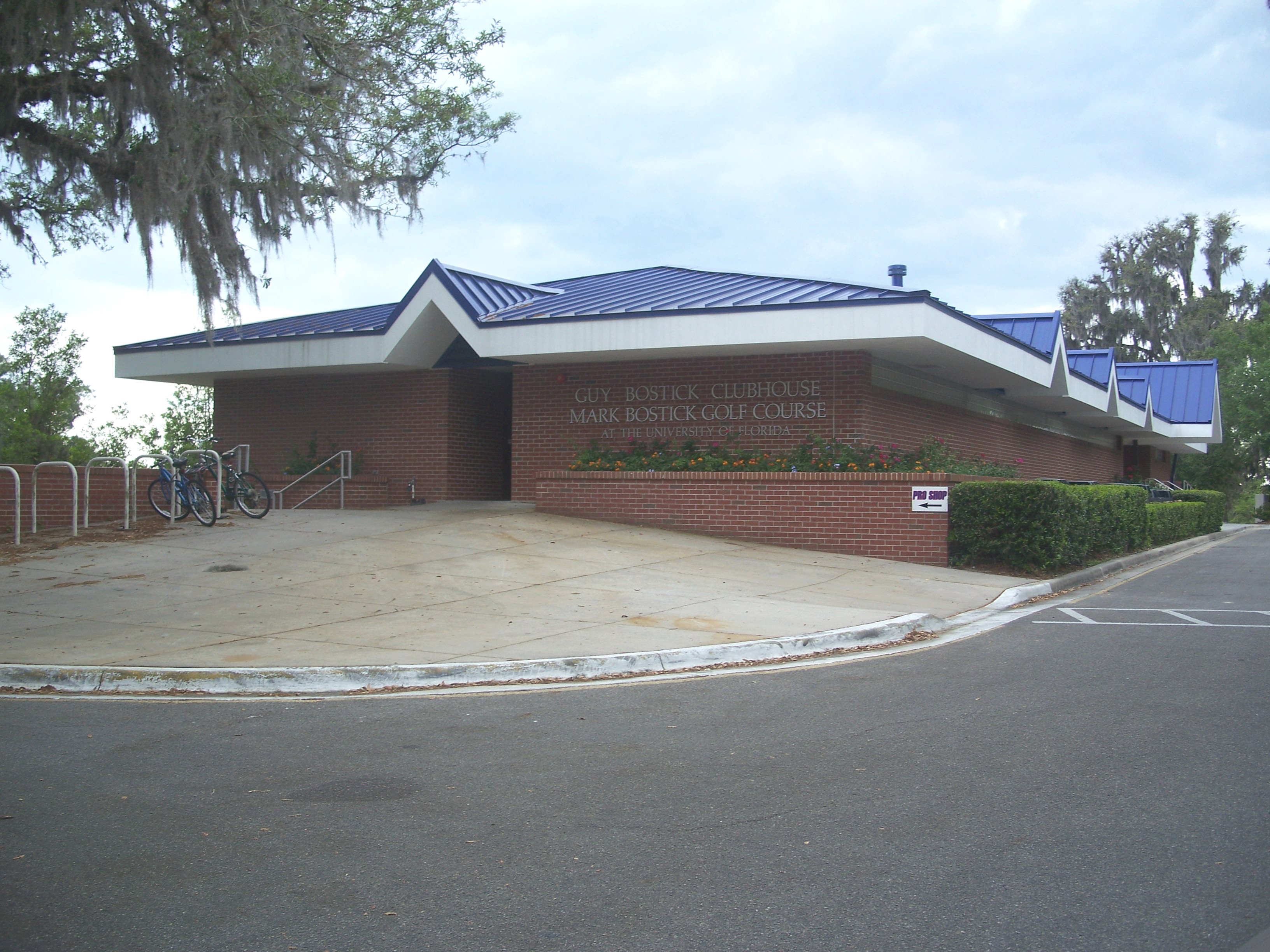 Gainesville, Florida: University of Florida: Guy Bostic Clubhouse